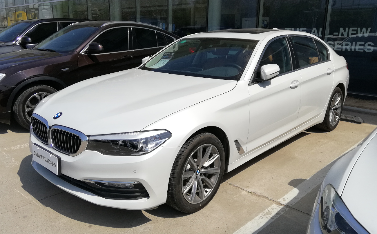 BMW 5-Series G38 Li photographed in Zhengzhou, Henan province, China.